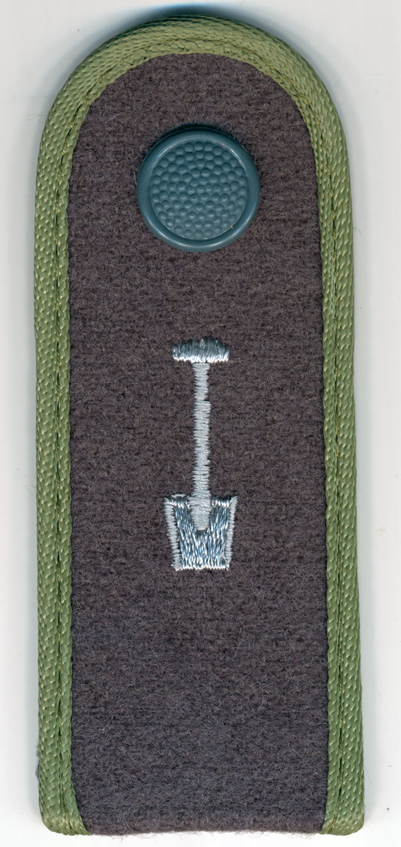 Badge of a Bausoldat of the NVA, GDR